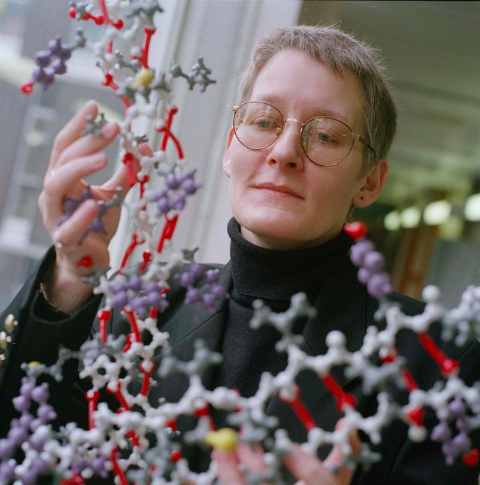 Professor Terri Attwood, Faculty of Life Sciences and School of Computer Science, University of Manchester, UK